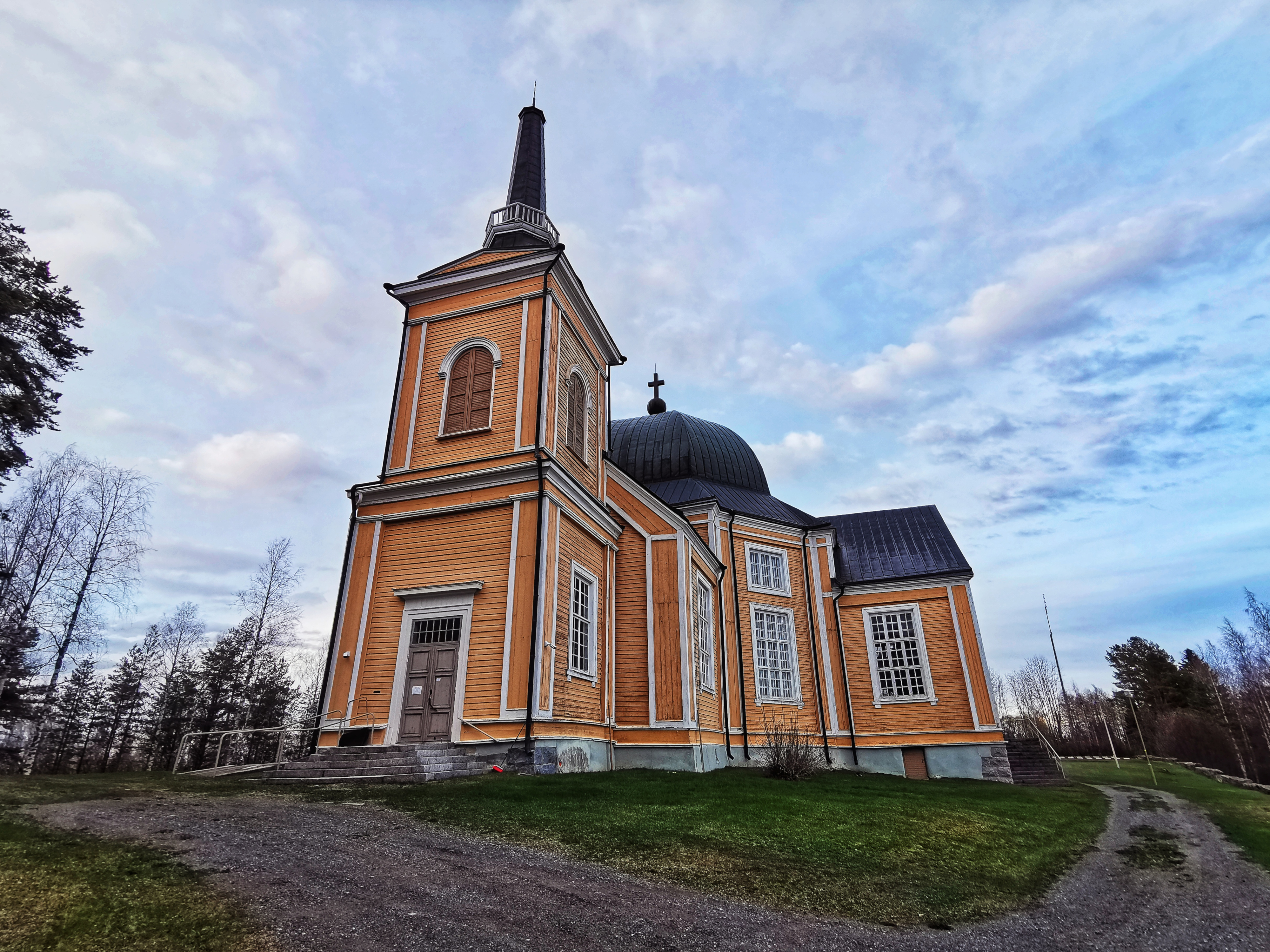 Rääkkylä Church